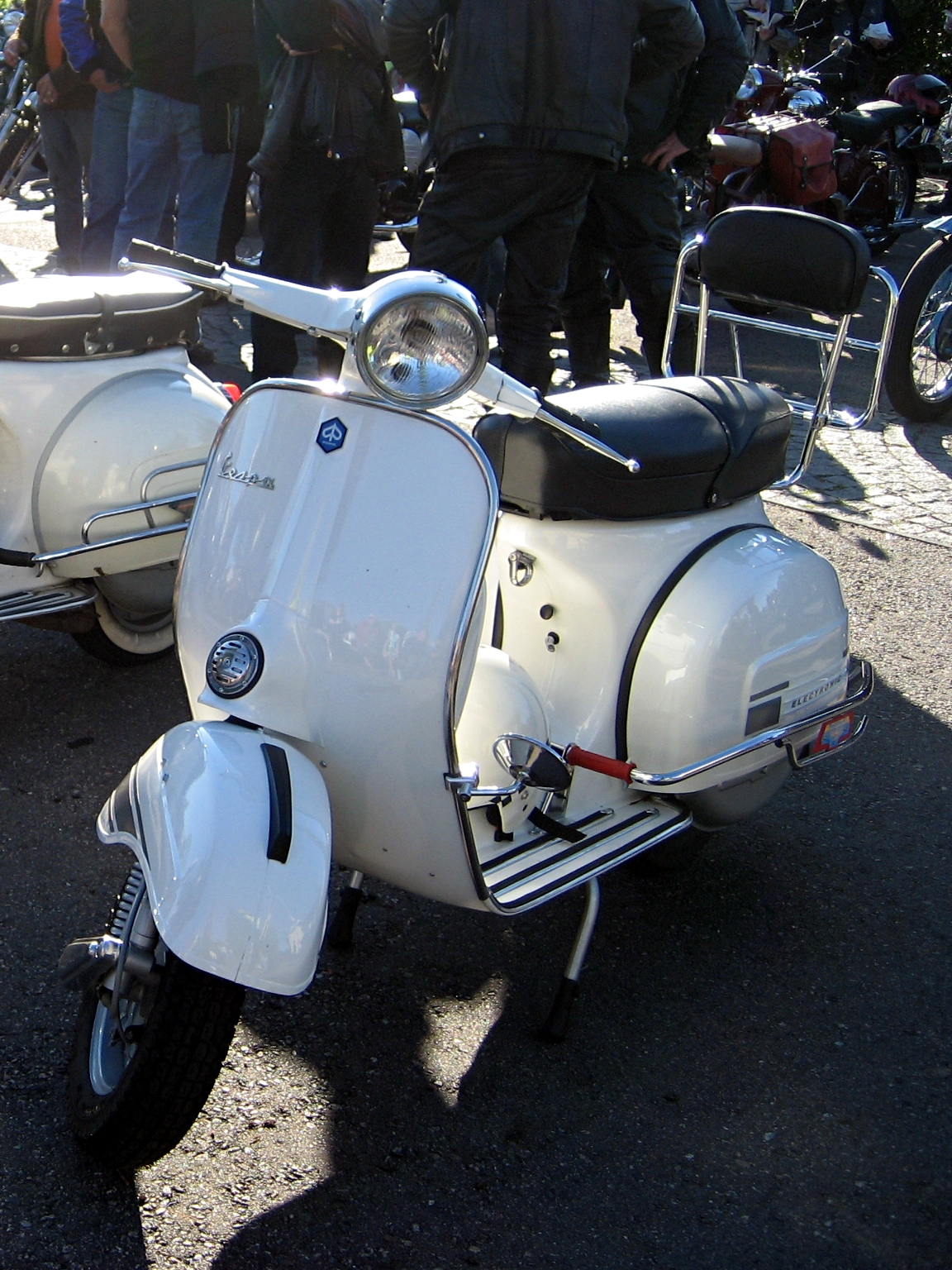 Piaggio's big frame motor scooter, Rally 200 Electronic, was in production between 1972 and 1979.